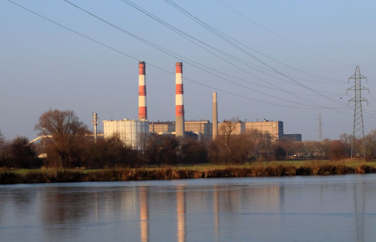 The Thermal power station at Richemont, France